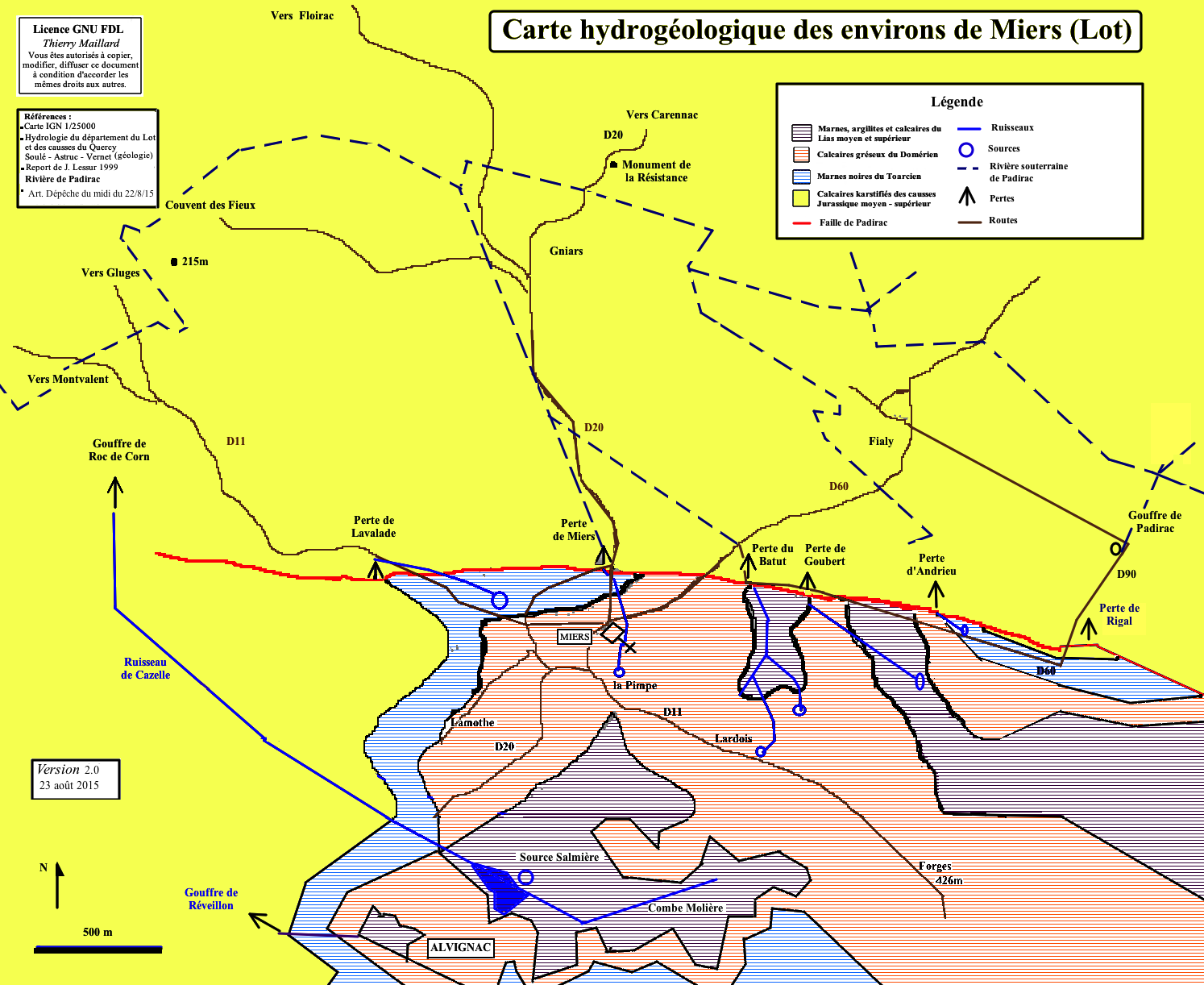 Miers (Lot - France) : hydrogeological map around Miers. Update on 25 Aug. 2015 following link discovered by CEC between Miers sinkhole and Padirac underground water system.